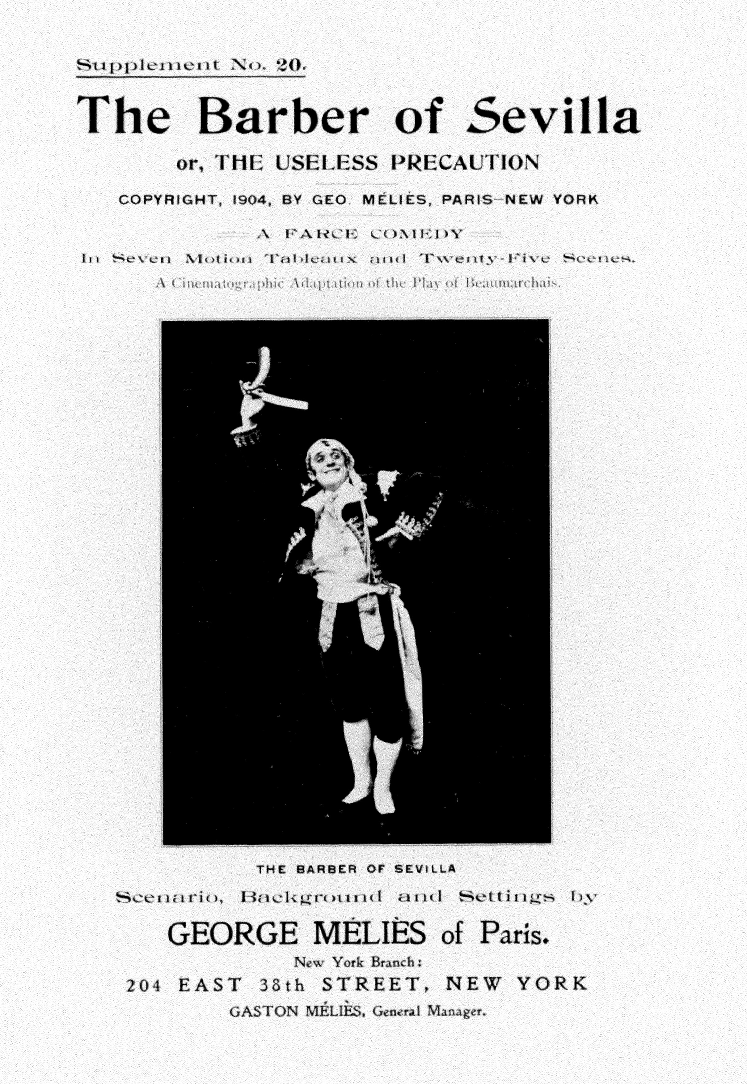 Cover of an advertising booklet for Georges Méliès's film The Barber of Sevilla (1904).